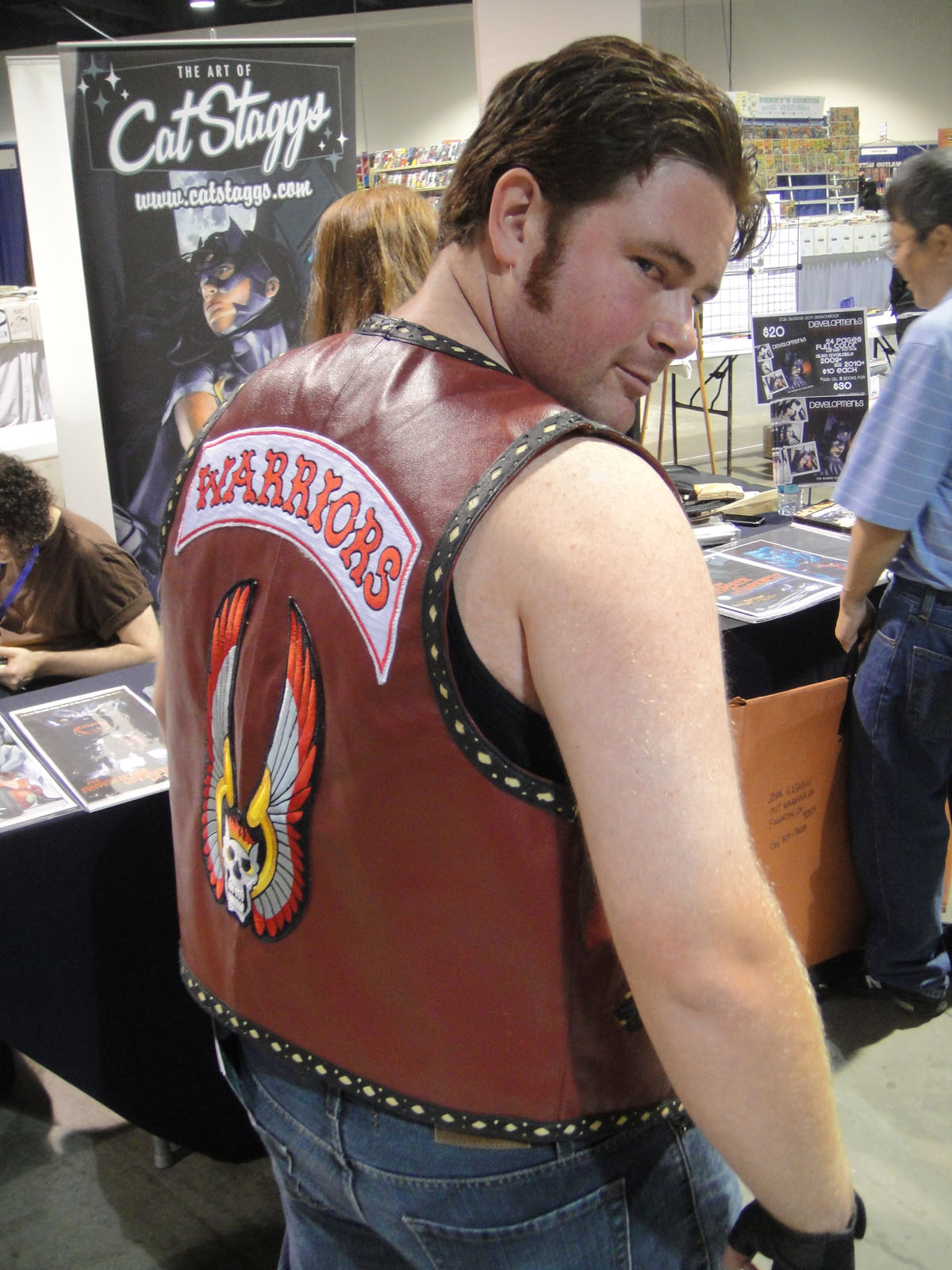 Cosplay of one of the Warriors (from the 1979 film Warriors) at Long Beach Comic & Horror Con 2011.